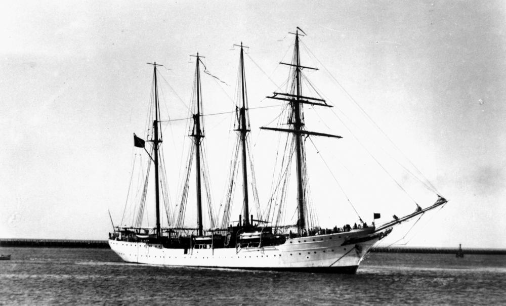 Juan Sebastian de Elcano (ship)